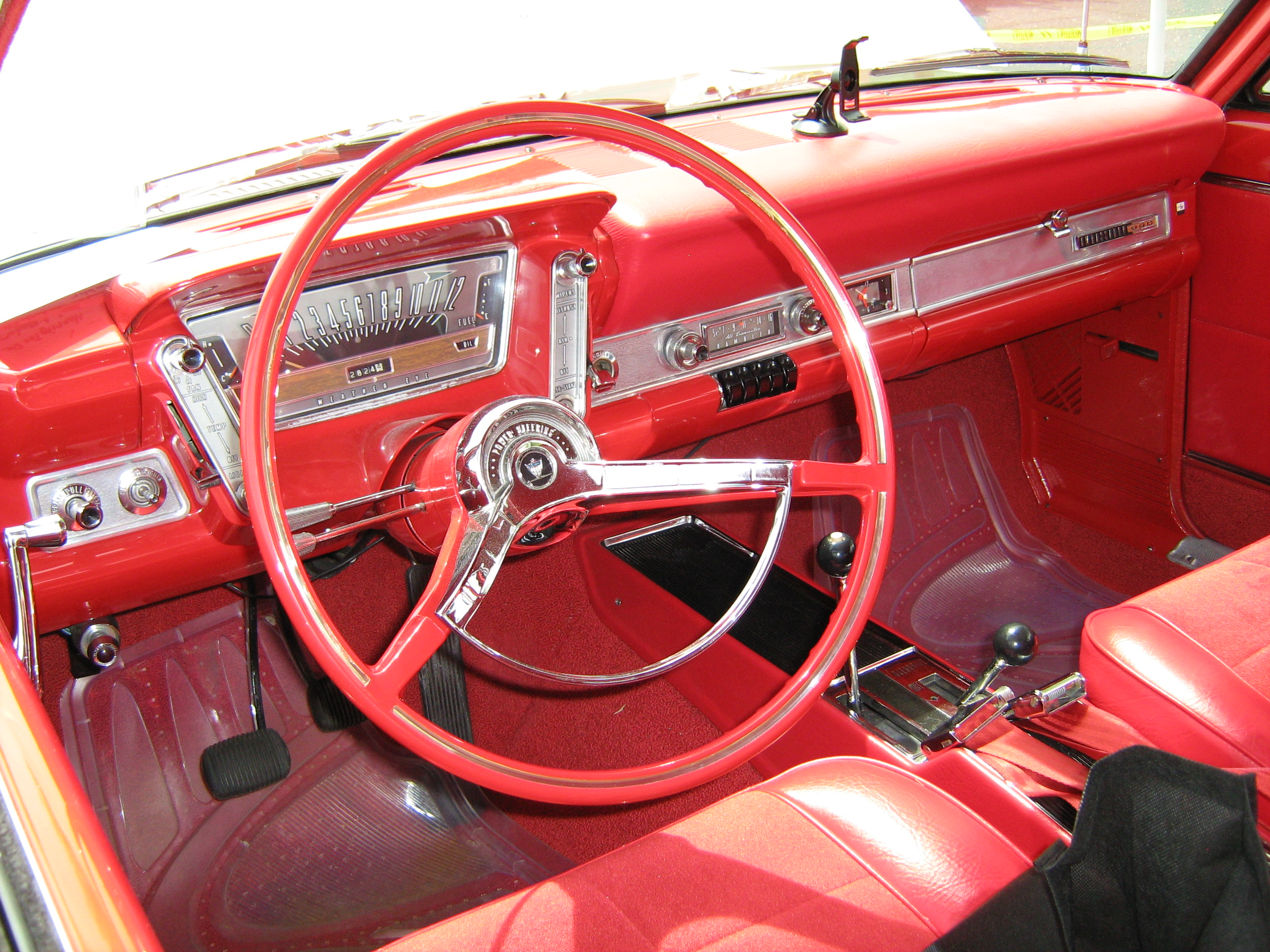 1964 Rambler Ambassador two-door sedan - Standard equipment 327 cu in (5.4 L) V8 engine, with optional "Twin-Stick" (three-speed and overdrive) console mounted transmission. Also includes the optional tilt-adjustable steering wheel. Picture taken at the "2010 AMC Invasion of Gettysburg" (Pennsylvania).